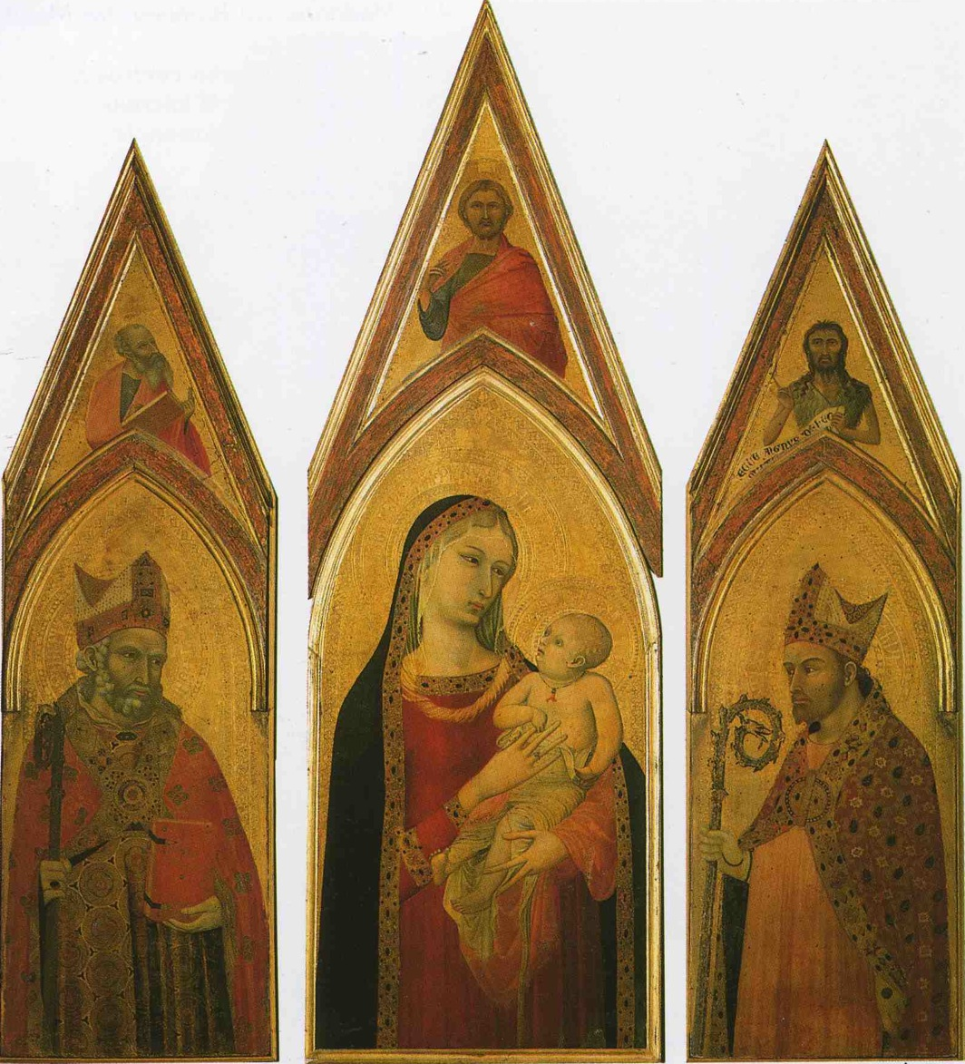 Depicted people: Saint Nicholas, Madonna and Child and Saint Proculus of Bologna